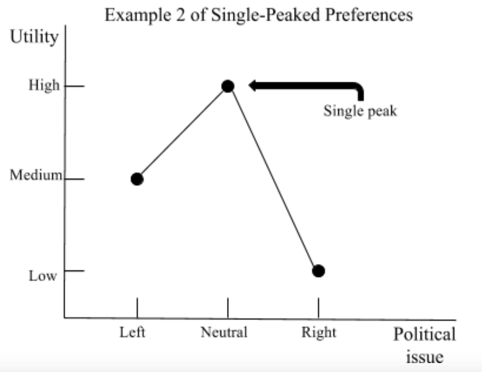 Example 2 of Single-Peaked Preferences